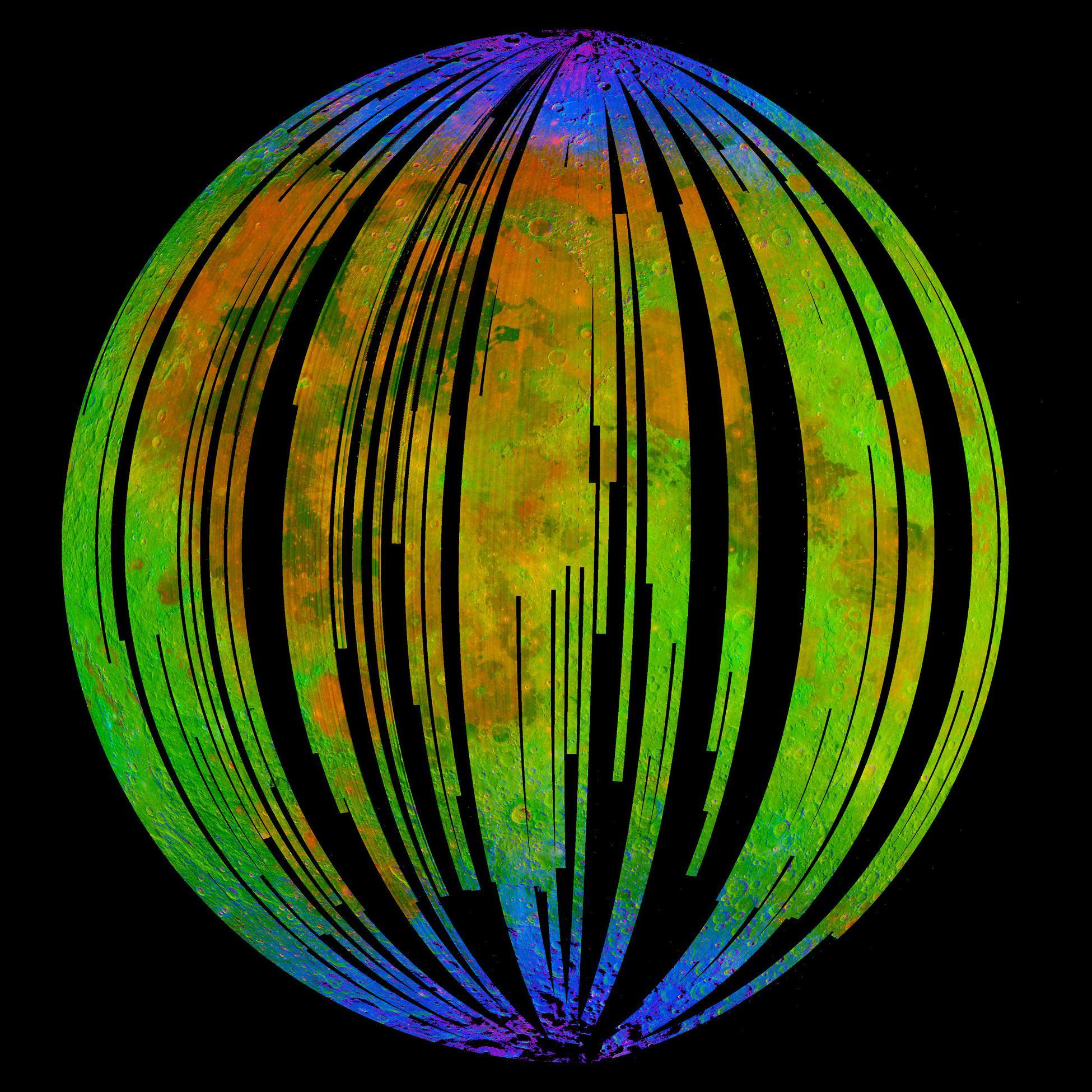 NASA's Moon Mineralogy Mapper, an instrument on the Indian Space Research Organization's Chandrayaan-1 mission, took this image of Earth's moon. It is a three-colour composite of reflected near-infra-red radiation from the sun, and illustrates the extent to which different materials are mapped across the side of the moon that faces Earth. Small amounts of water were detected on the surface of the moon at various locations. This image illustrates their distribution at high latitudes toward the poles. Blue shows the signature of water, green shows the brightness of the surface as measured by reflected infra-red radiation from the sun and red shows a mineral called pyroxene.